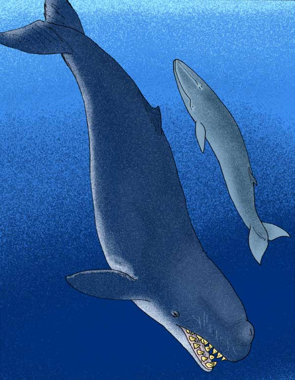 Reconstruction and comparison of the prehistoric whales Livyatan melvillei and Piscotherium, from Middle Miocene Peru.